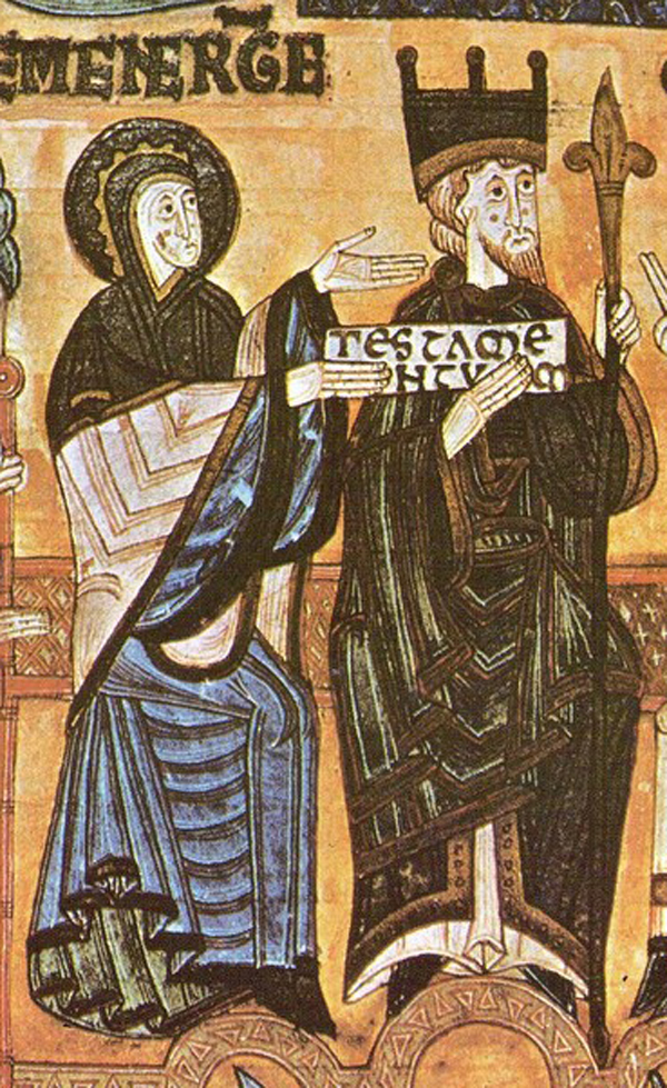 Libro de los Testamentos